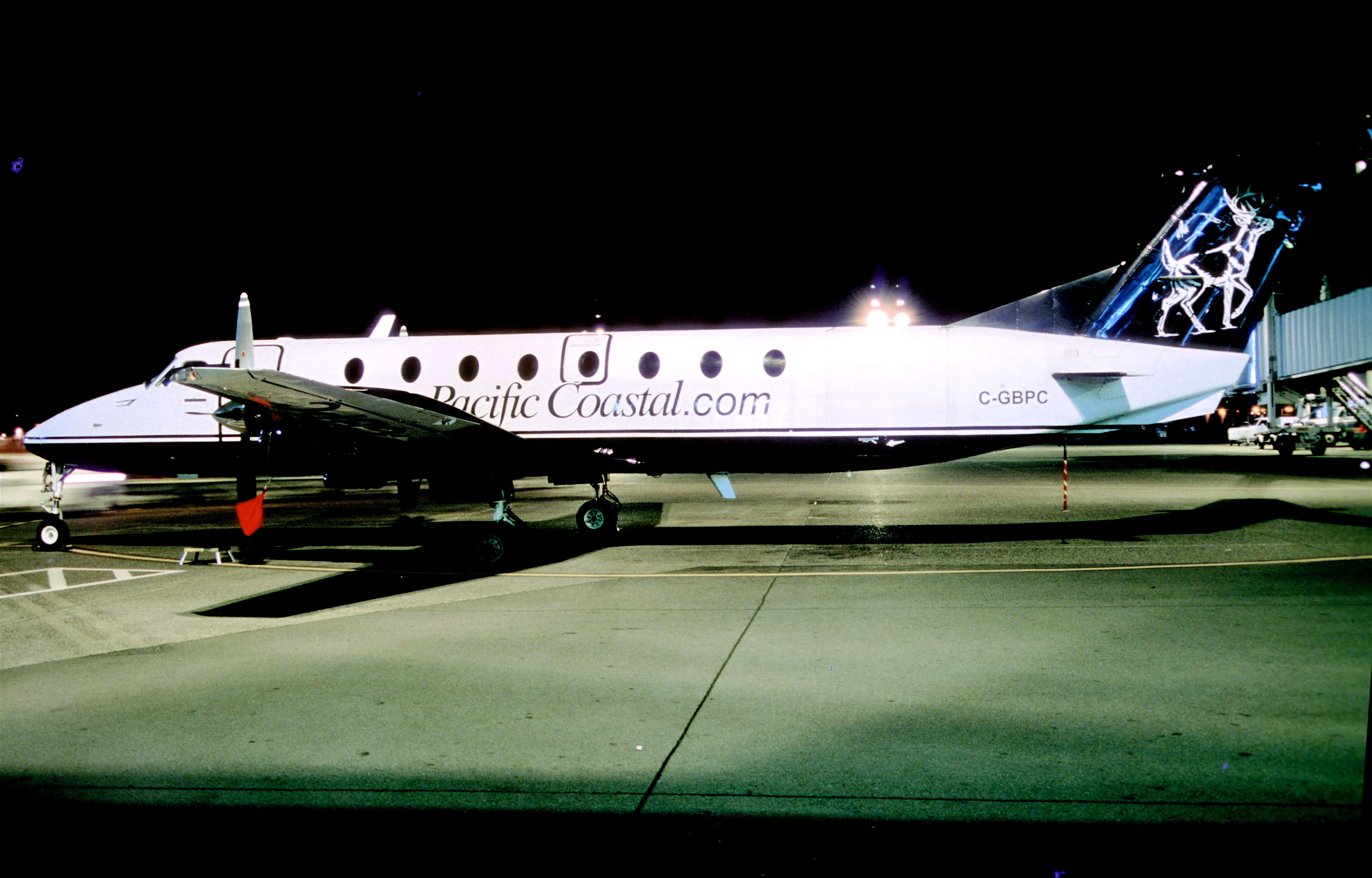 433ah - Pacific Coastal Airlines Beech 1900C Airliner; C-GBPC@YYJ;09.10.2006